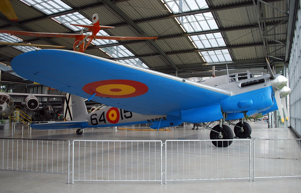 CASA C-2.111B